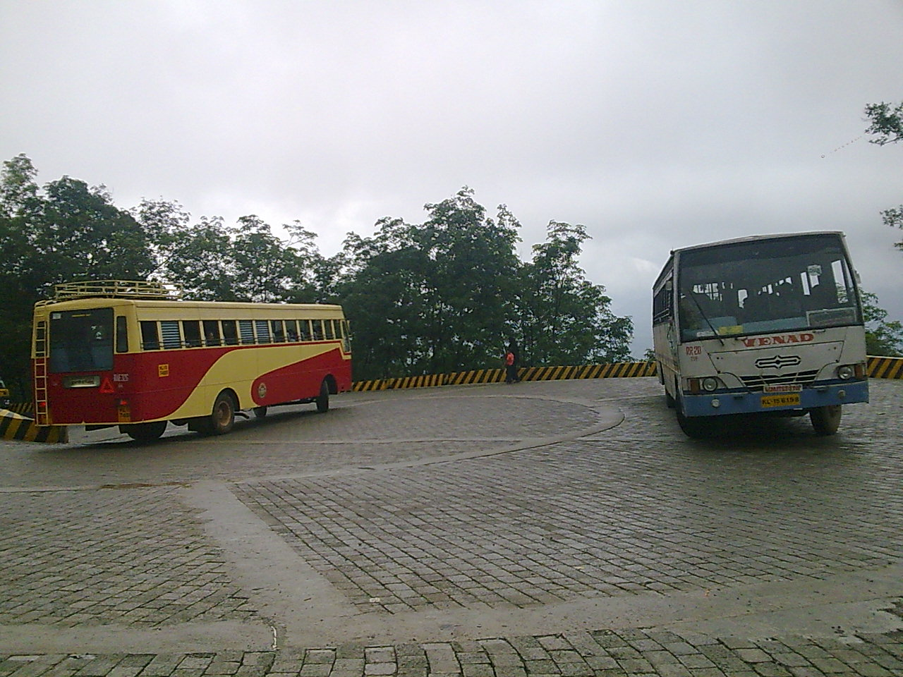 KSRTC Bus on Wayanad Ghat Section